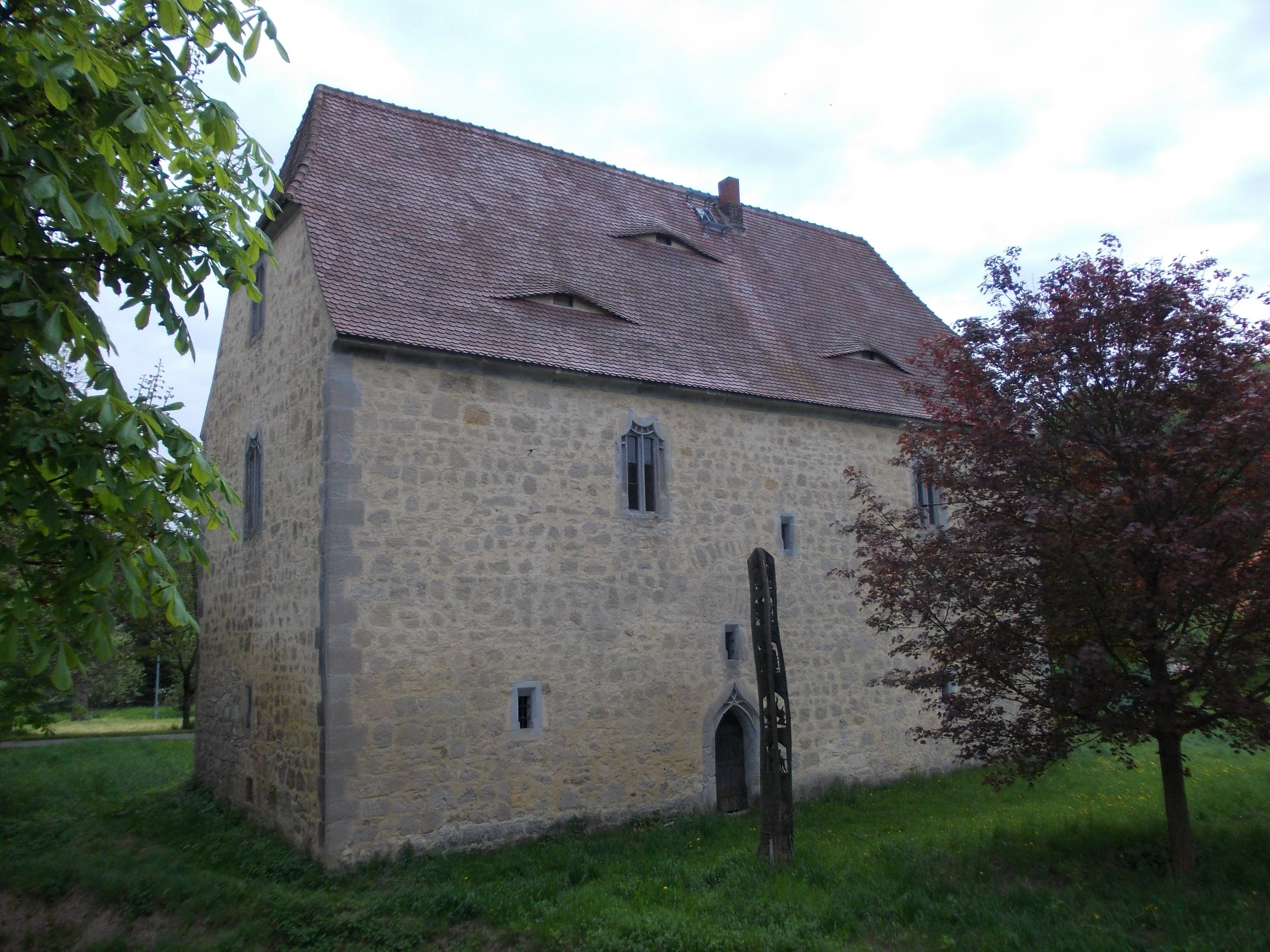 The Gothic House of Burghessler (An der Poststrasse, district: Burgenlandkreis, Saxony-Anhalt)